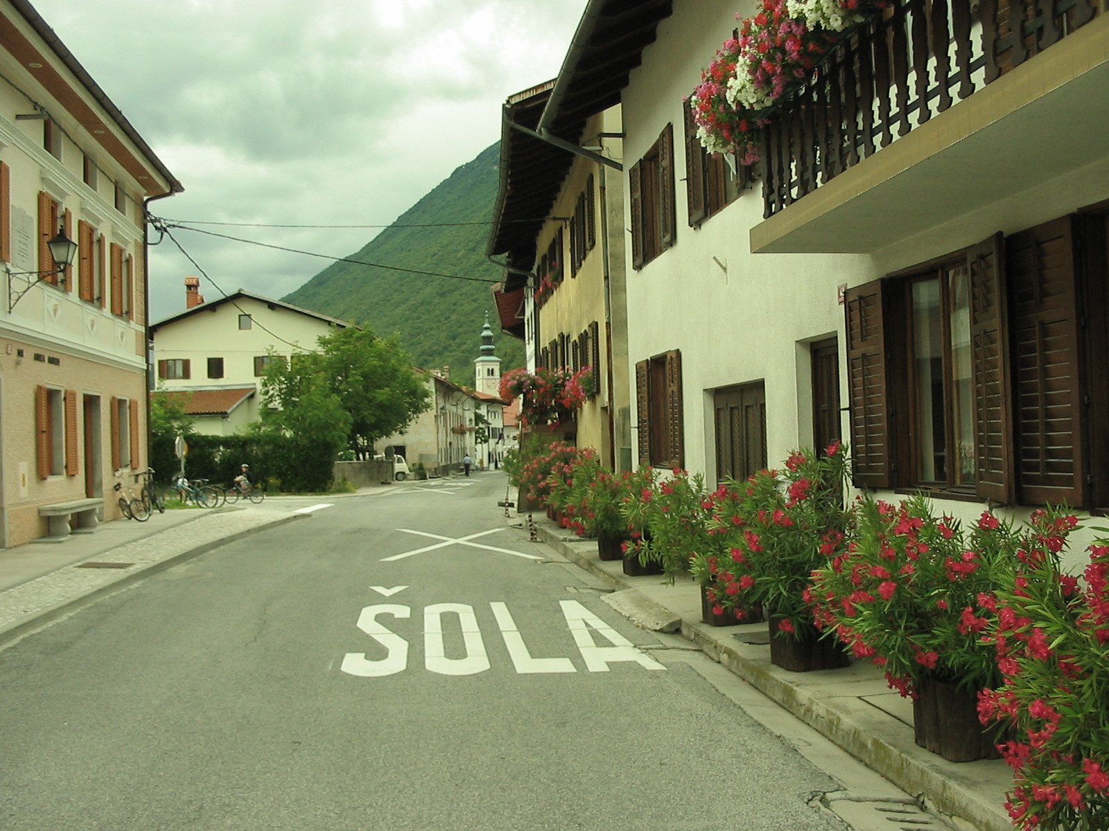 Author: Reinhard Kuknat, Germany